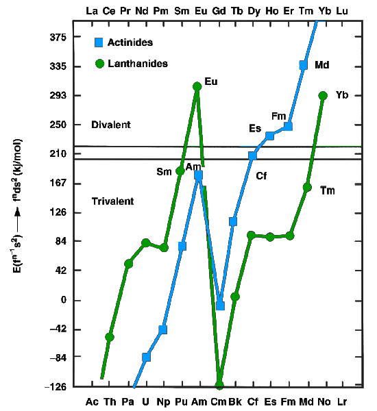 The f→d promotion energies for the f‐elements (bar across figure is estimate of crystal energy needed to compensate for promotion of an electron from an f to a d level ).